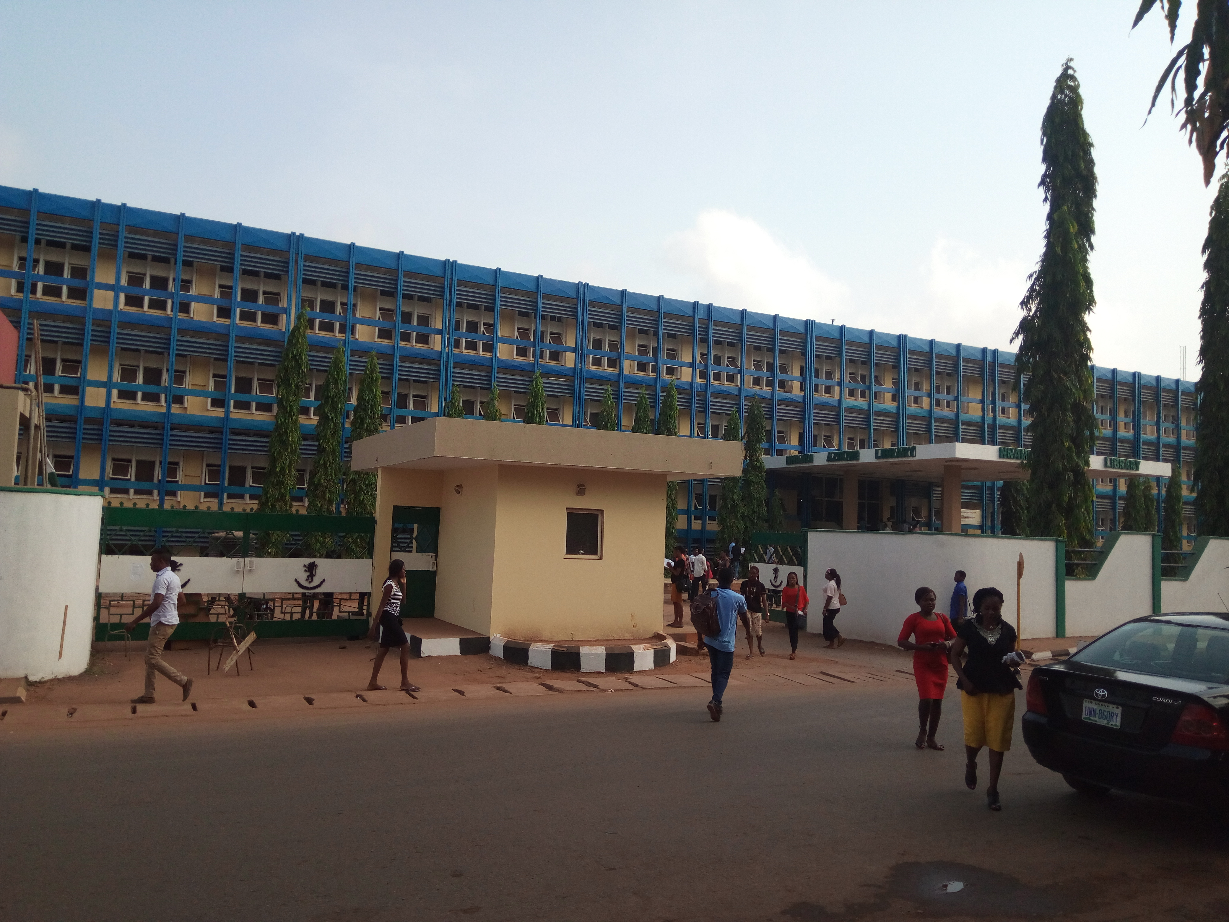 Nnamdi Azikiwe Library University of Nigeria Nsukka